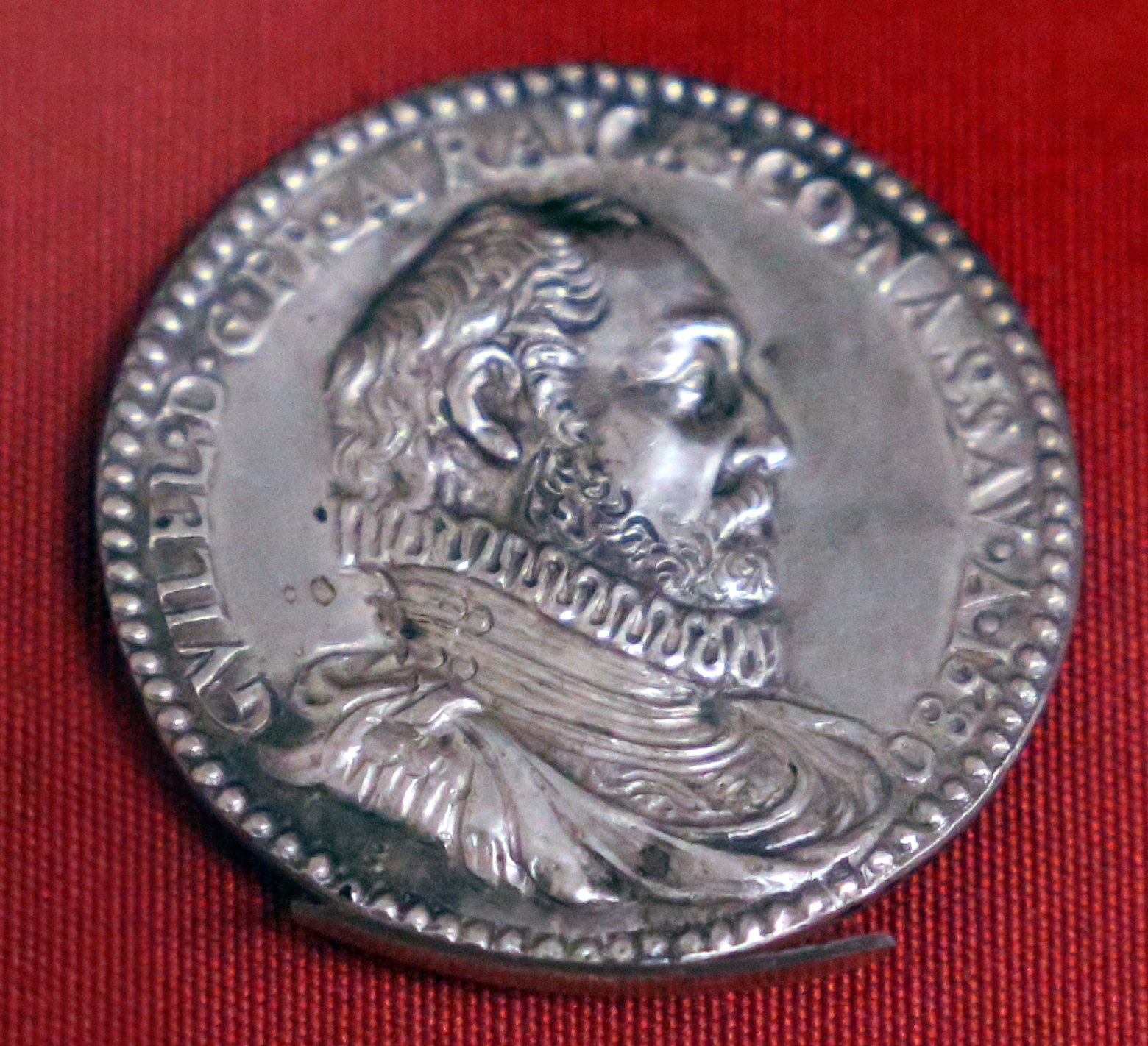 Medals in the Teylers Museum